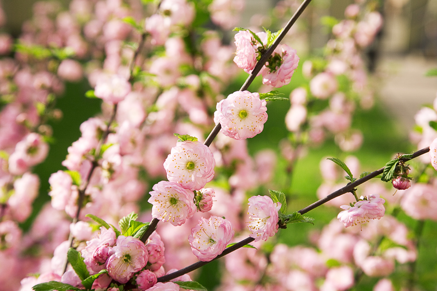 “Flowering Almond” Prunus triloba Lindl.